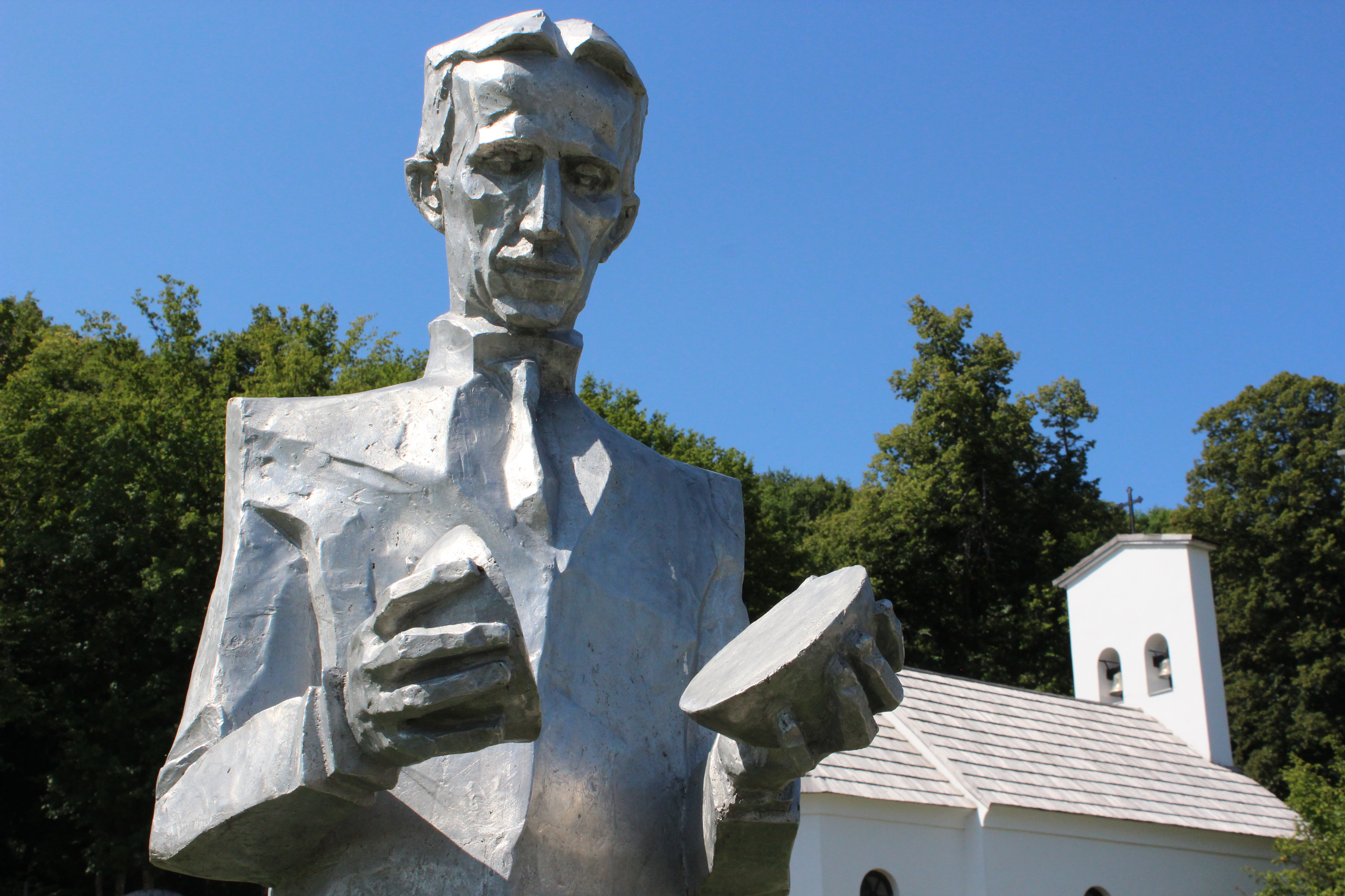 Detail of Tesla's statue (Nikola Tesla Memorial Center, Smiljan, Croatia). Created by Mile Blažević, 2006.